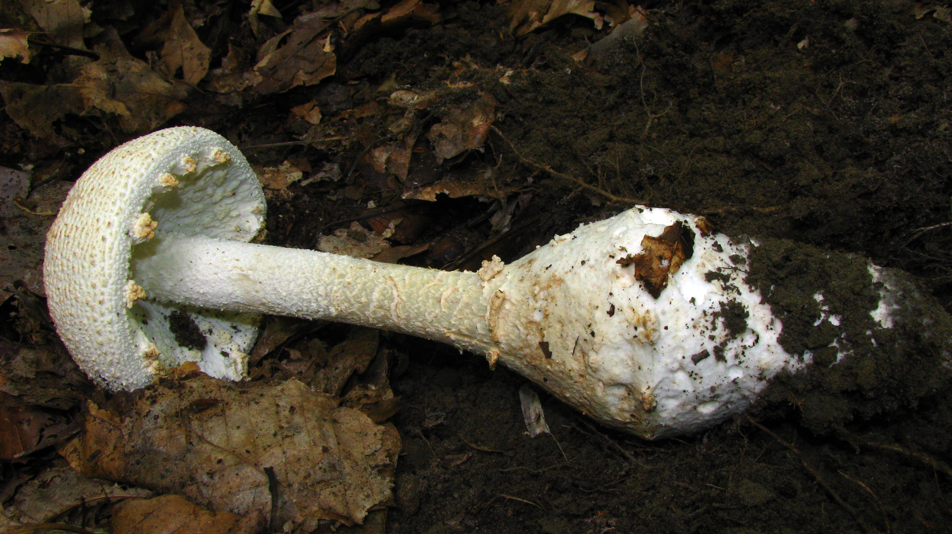 The mushroom Amanita daucipes (Mont.) Lloyd. Specimen found in Strouds Run State Park, Athens, Ohio, USA.